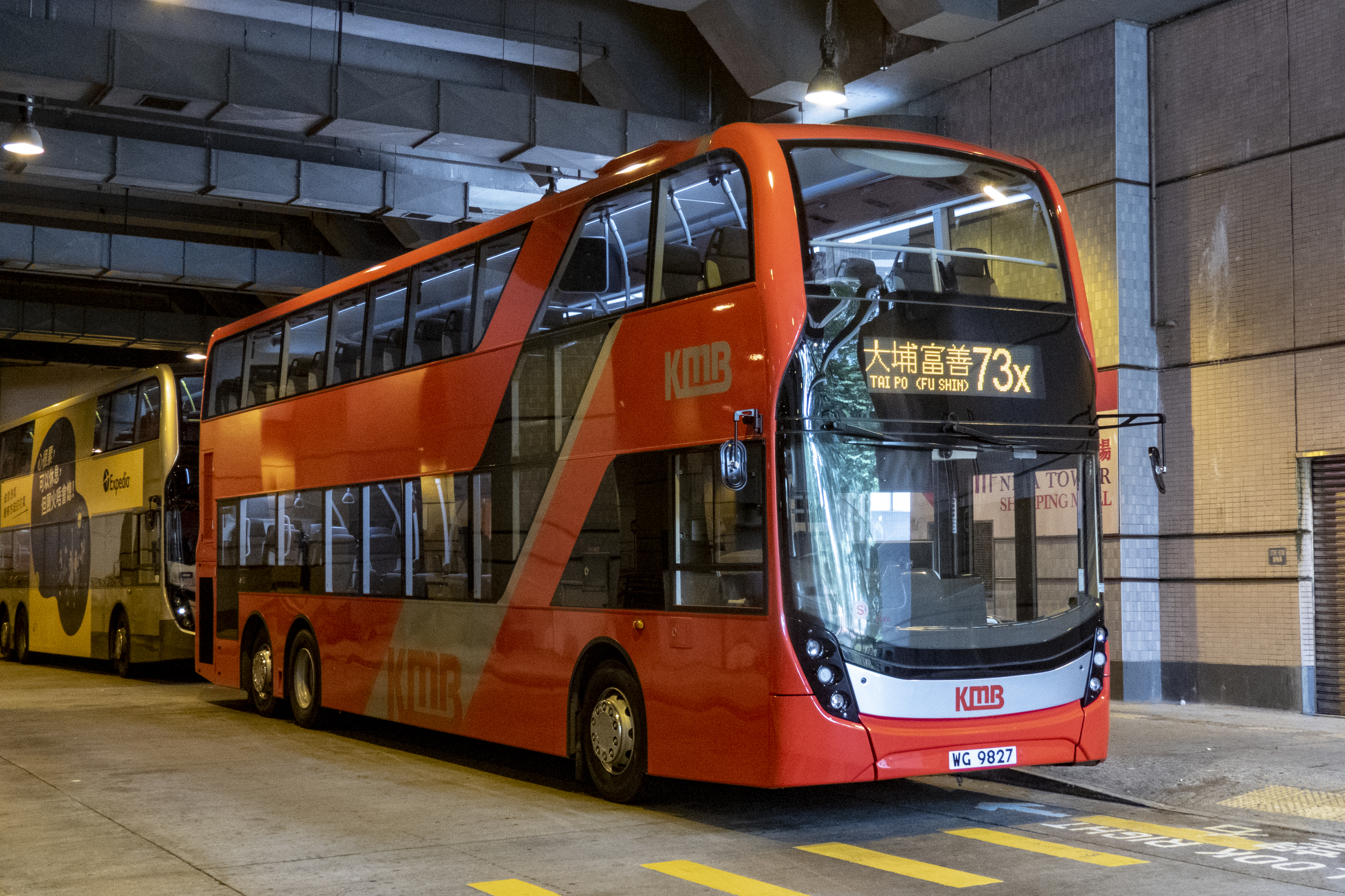 KMB has put something new in service: yes, these MMCs with glass staircase.